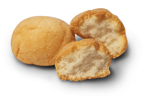 Amaretti in almond soft pastry, very common in Italy.